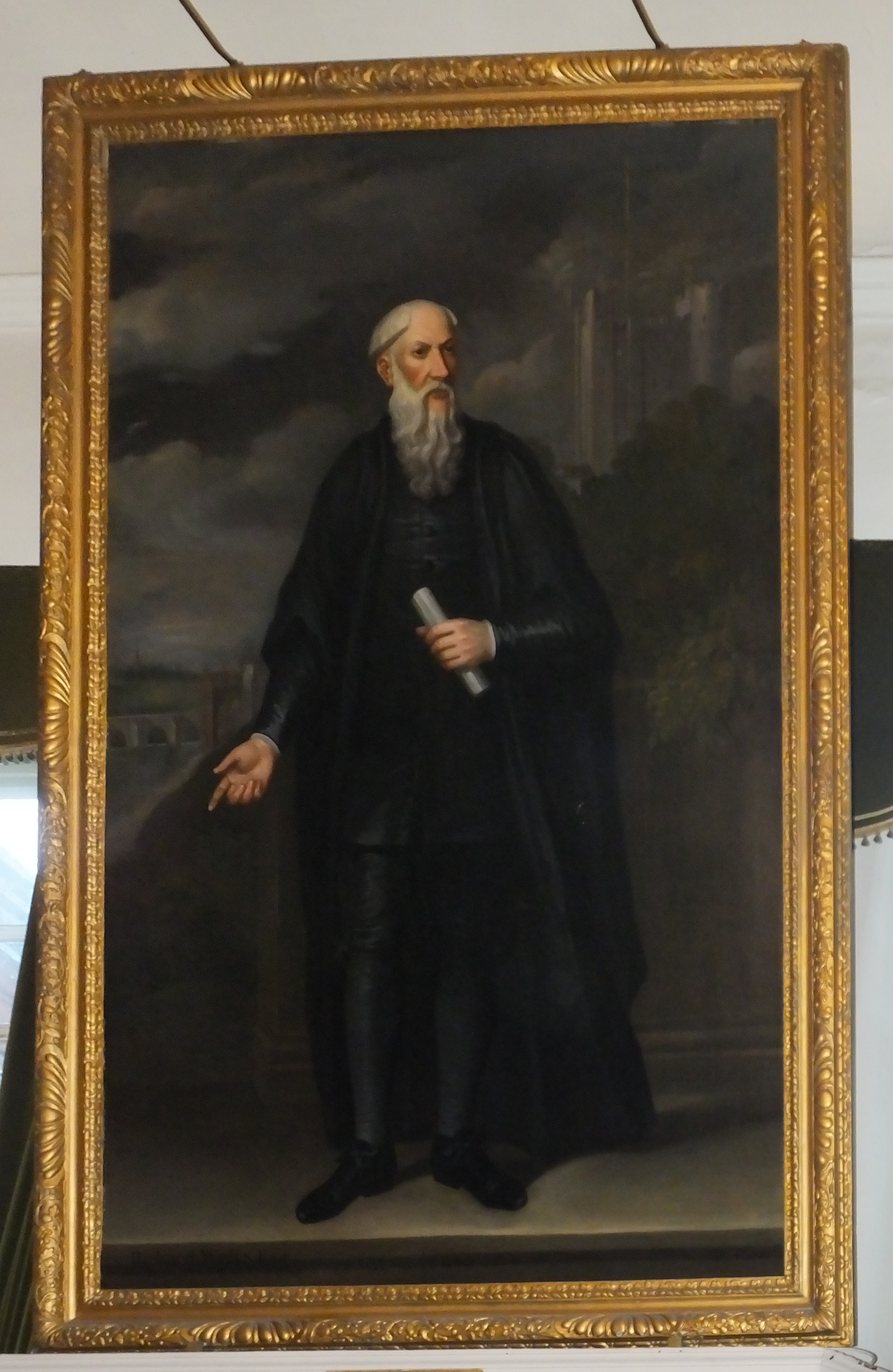 Portraits from the collection of the Guildhall Museum in Rochester, Kent. Richard Watts Richard Watts MP for Rochester 1563. A portrait by Daniel de Coning